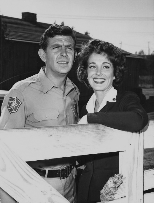 Photo of Andy Griffith and Julie Adams as the new county nurse from the television program The Andy Griffith Show.